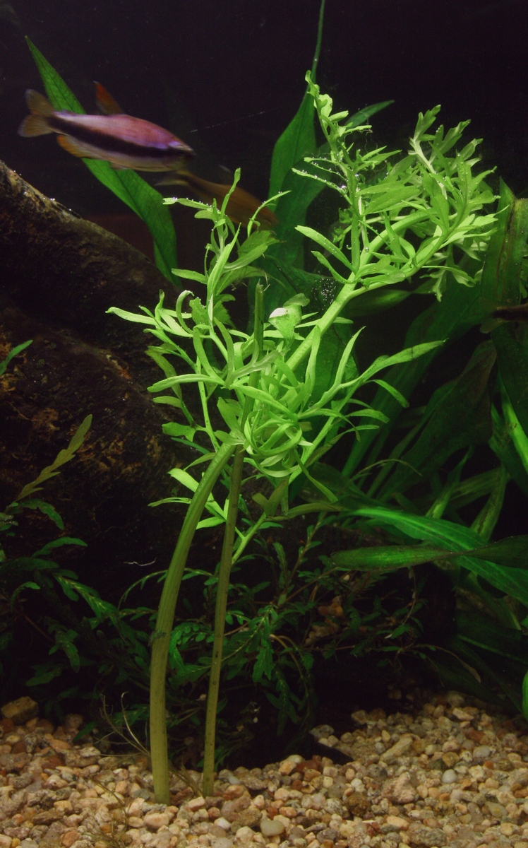 Ceratopteris cornuta in aquarium